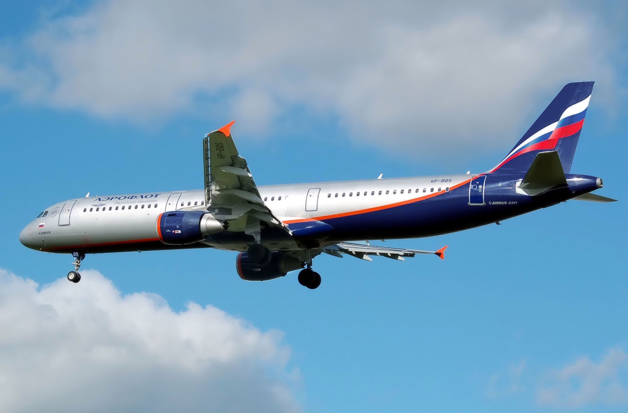 Aeroflot Airbus A321-200 (registration VP-BQS) landing at London Heathrow Airport, England.